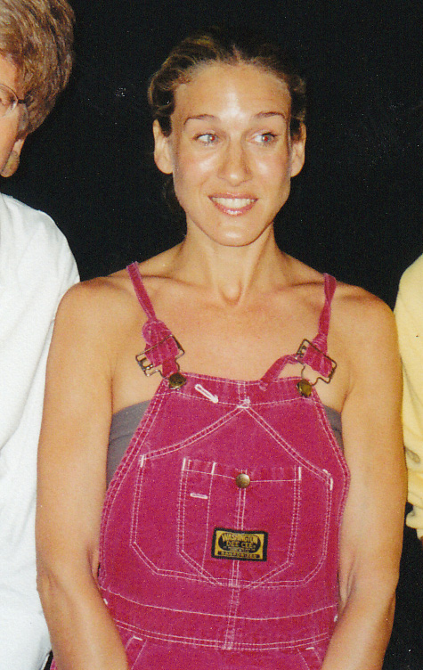 Sarah Jessica Parker at the rehearsal for the 1999 Emmy Awards